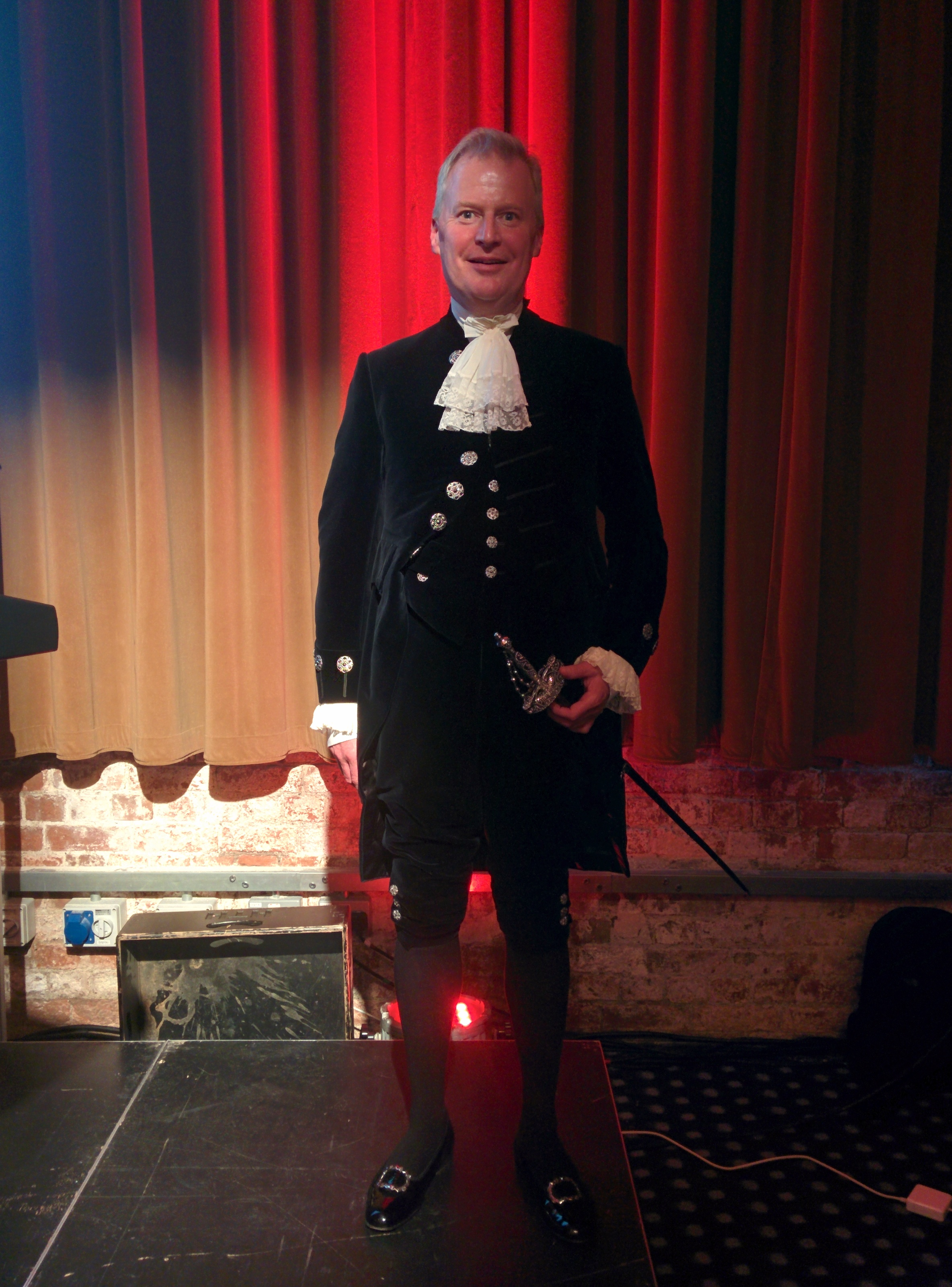 Derby Book Festival opening ceremony 1 June 2015 held near the Roundhouse in Derby